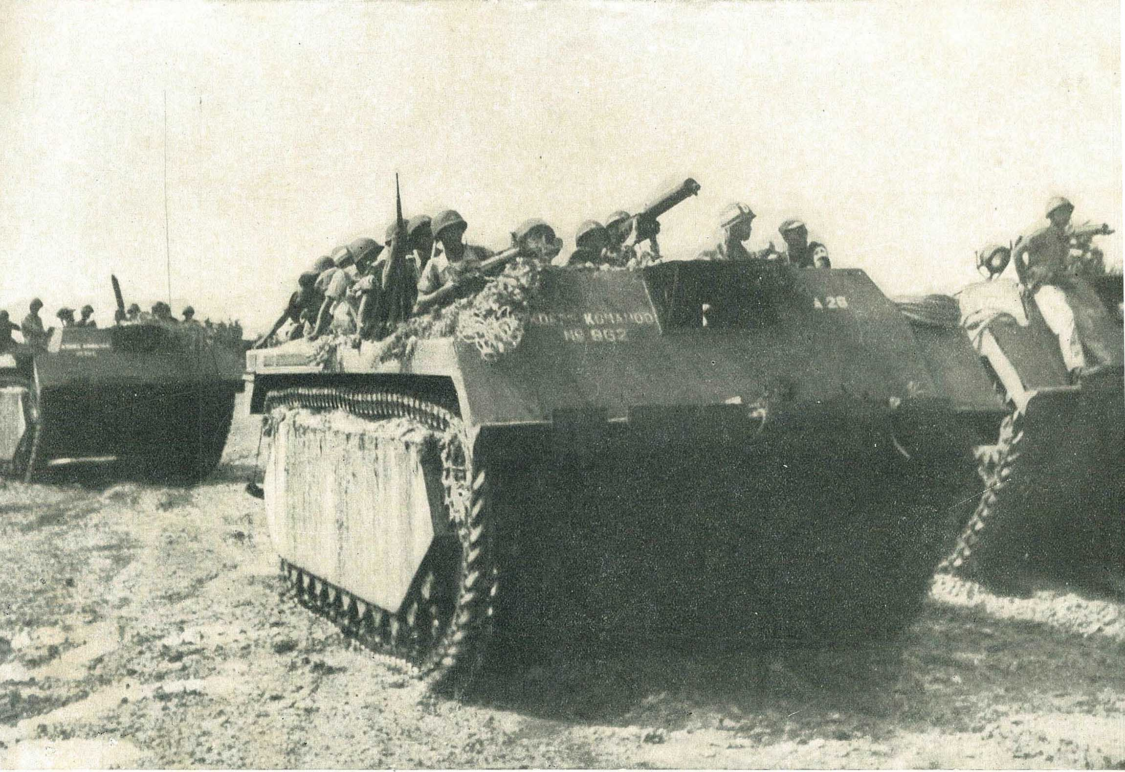 Indonesian Navy Command Corps in tanks